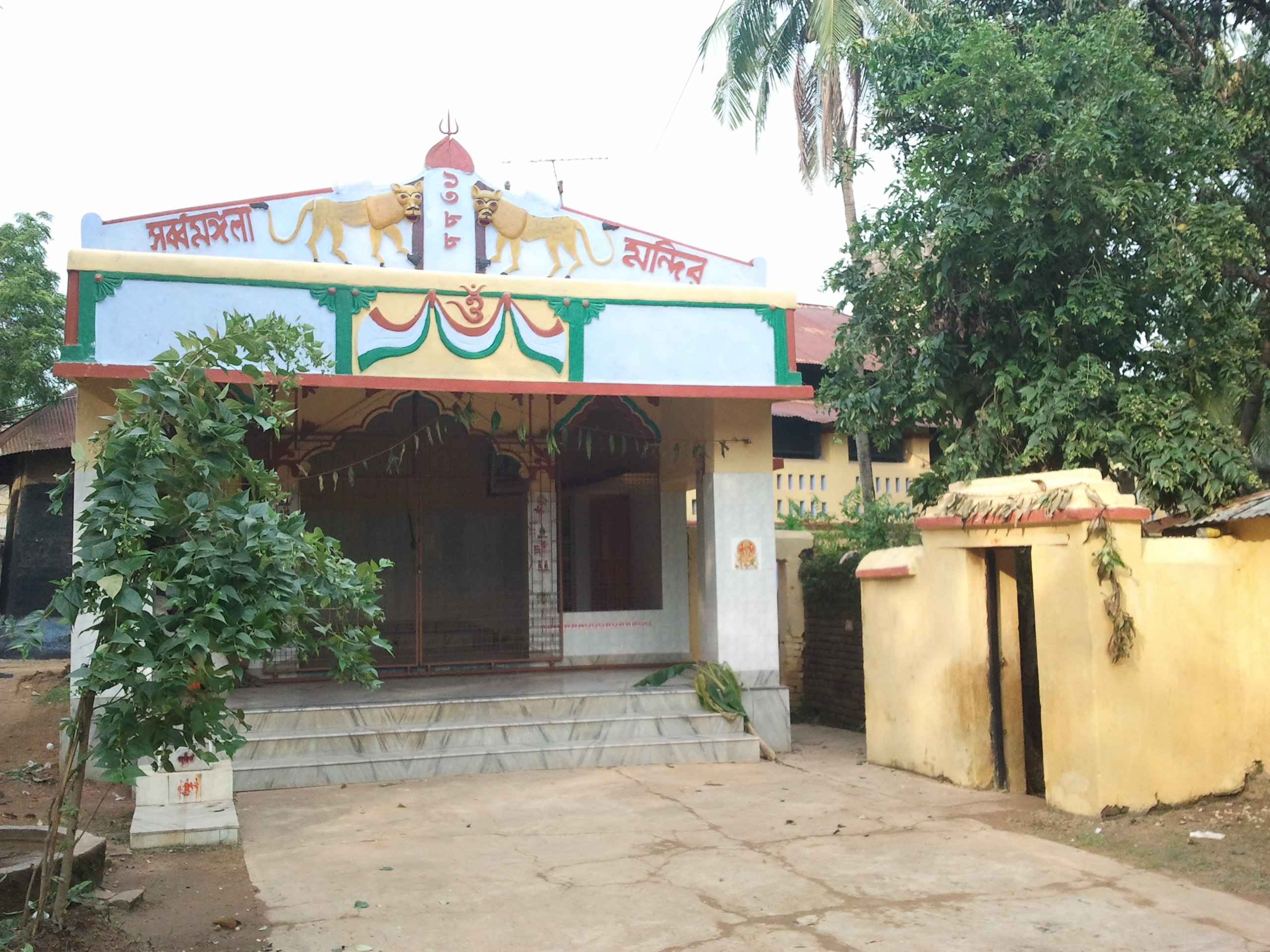 Sarbamangala (Durga) Mandir